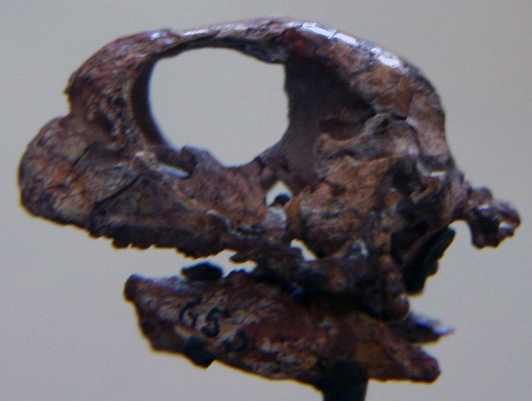 parrot reptile Visit my blog at